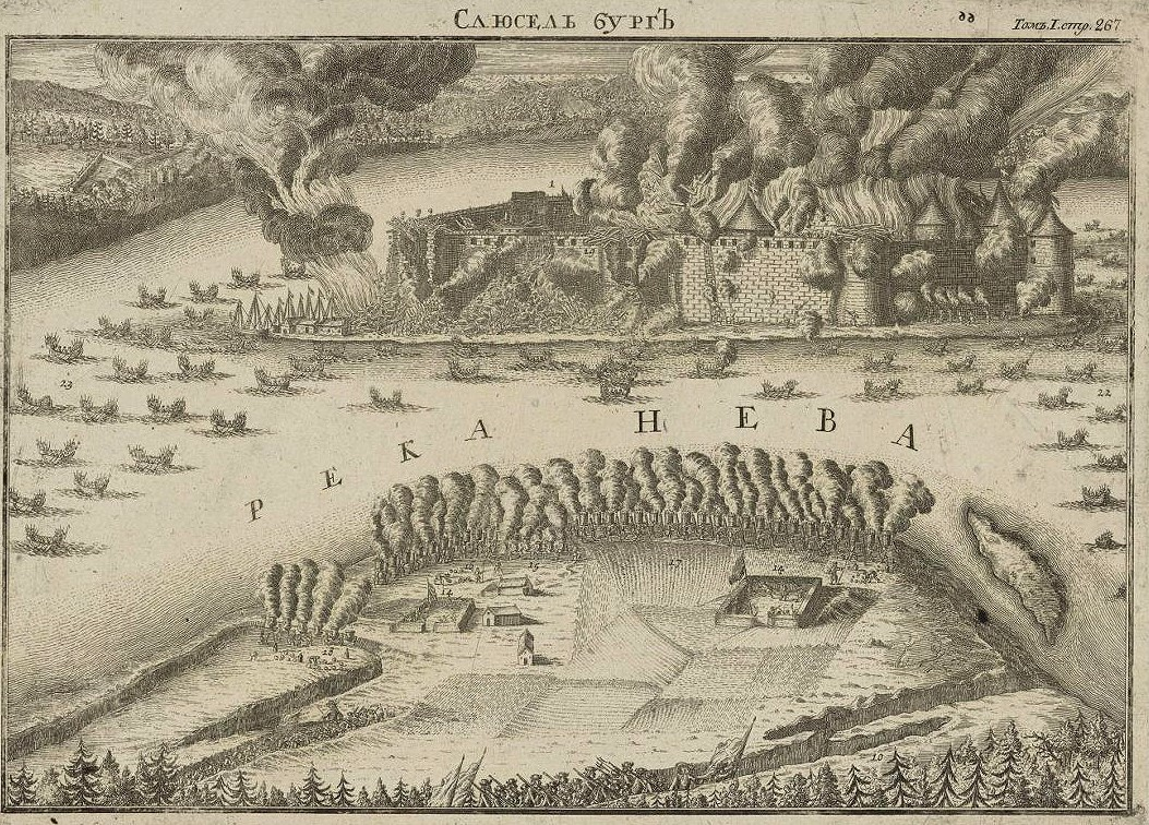 An engraving of the Siege of Nöteborg.